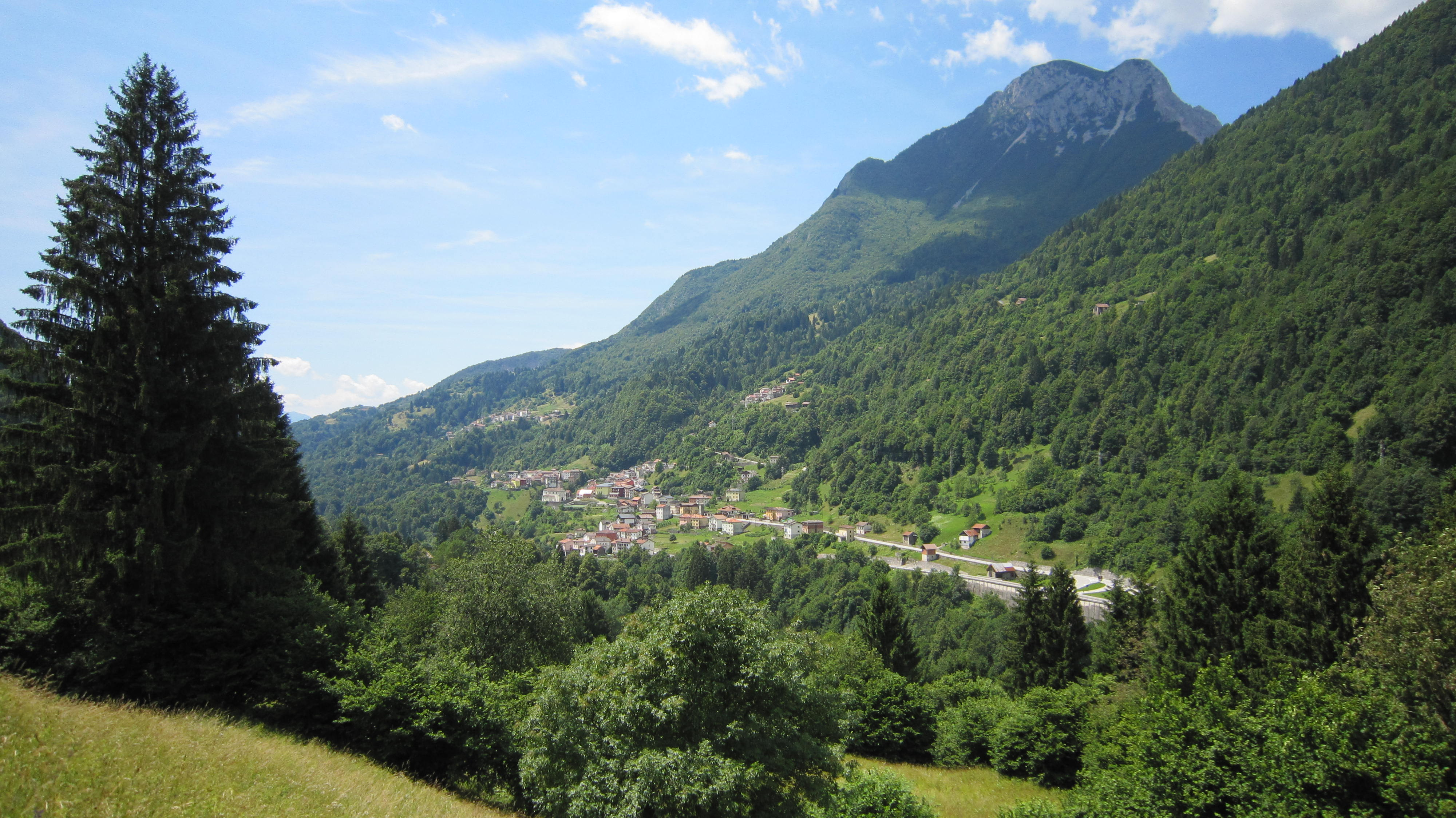 salino